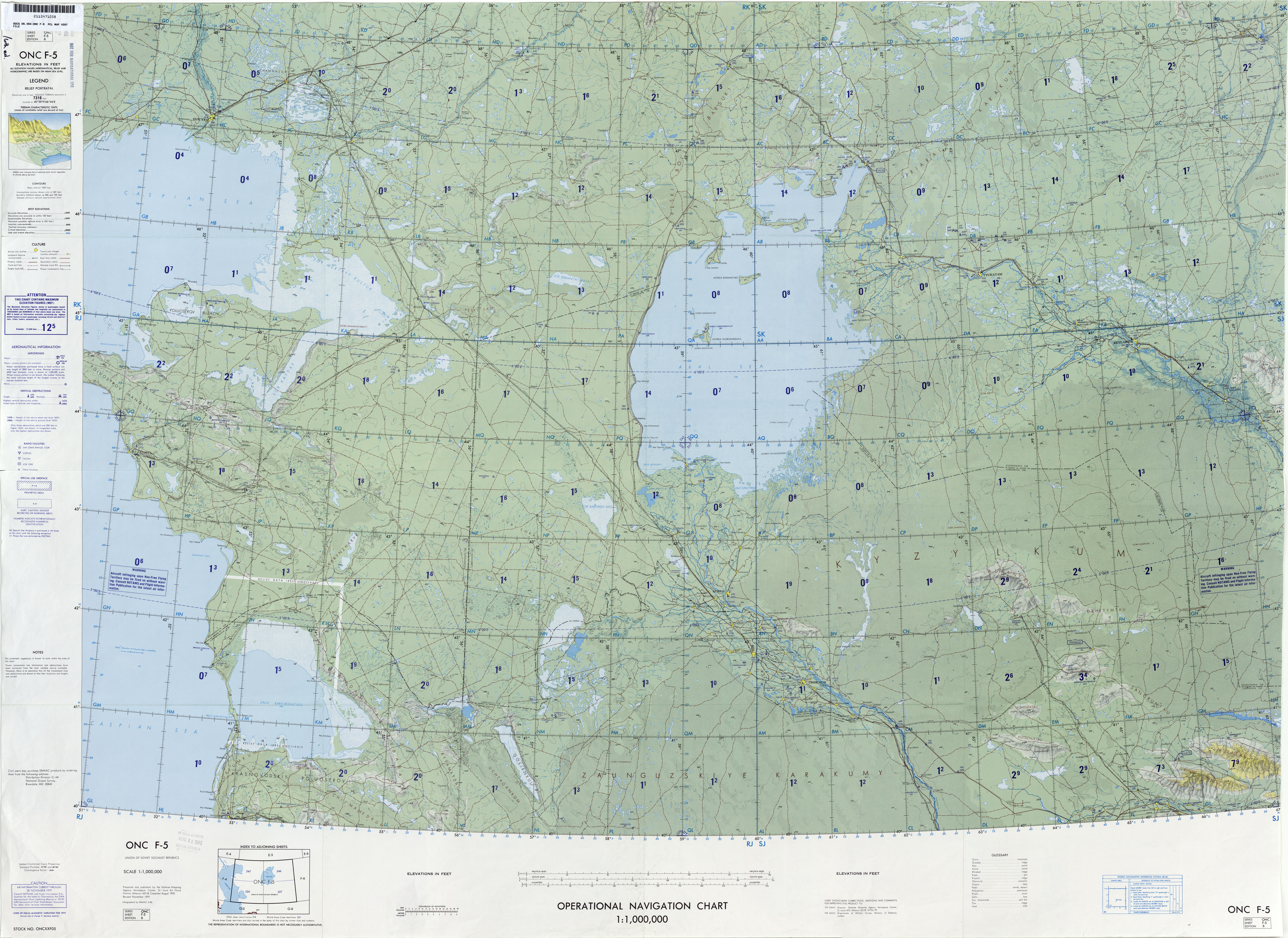 1:1,000,000 scale Operational Navigation Chart, Sheet F-5, 6th edition. Covers USSR. Lambert Conformal Conic Projection. Standard Parallels 41 20N and 46 40N. Center longitude 59E.